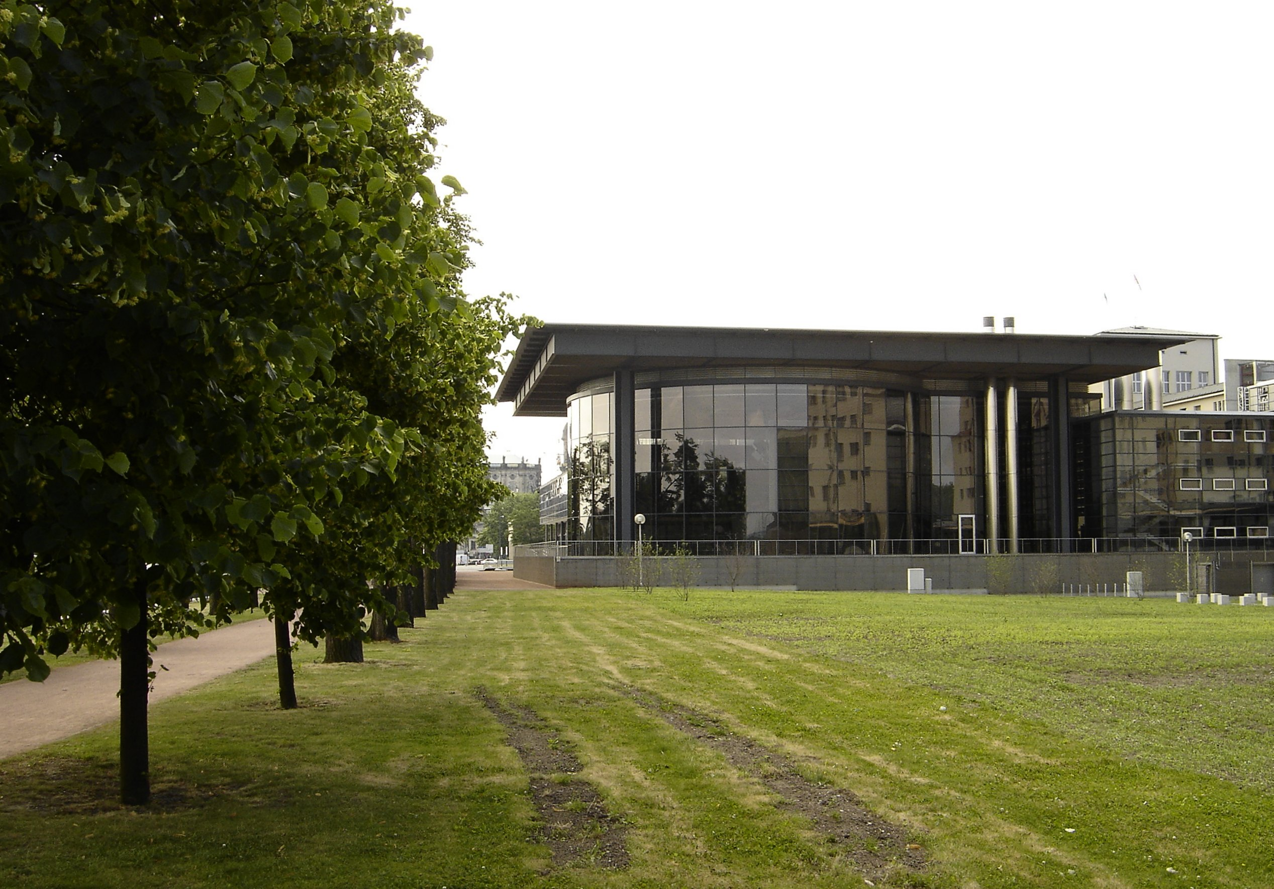 Landtag of Saxony in Dresden